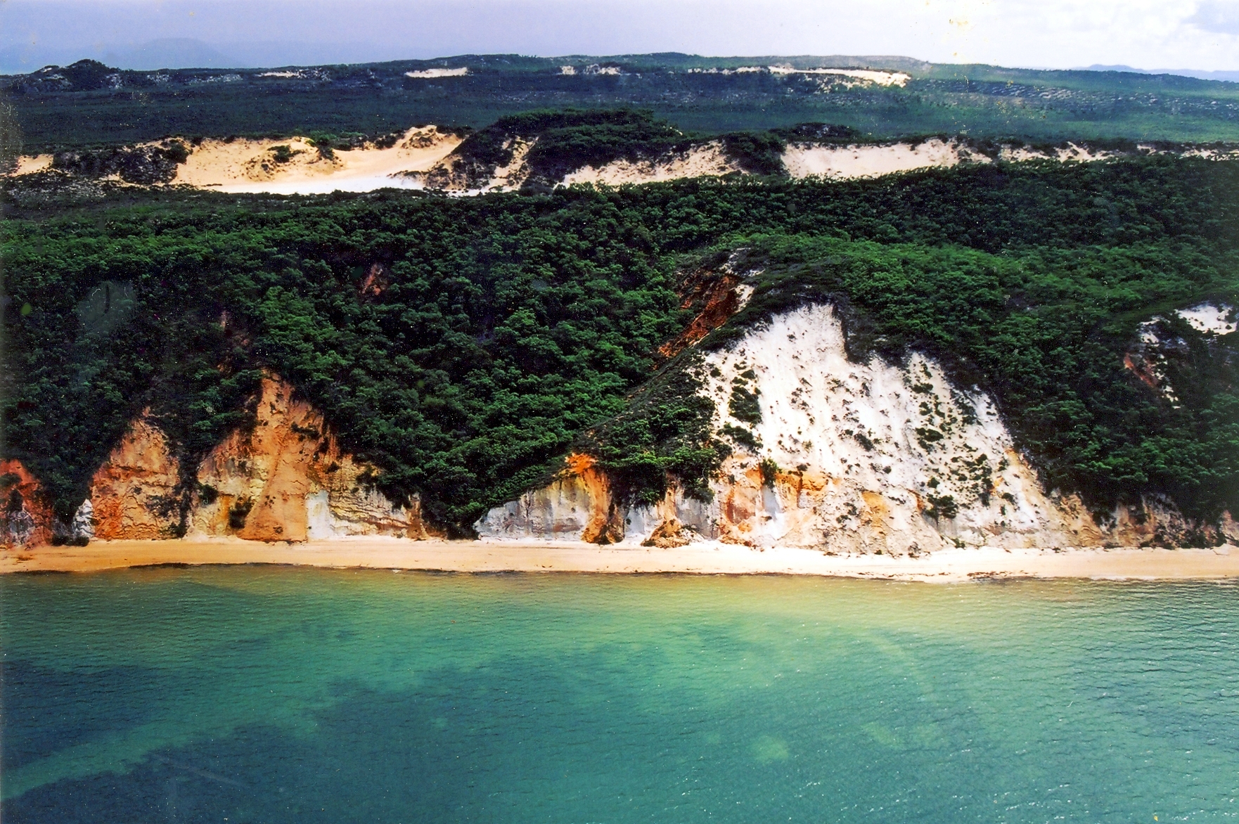 I took this photo near Hopevale in 1990